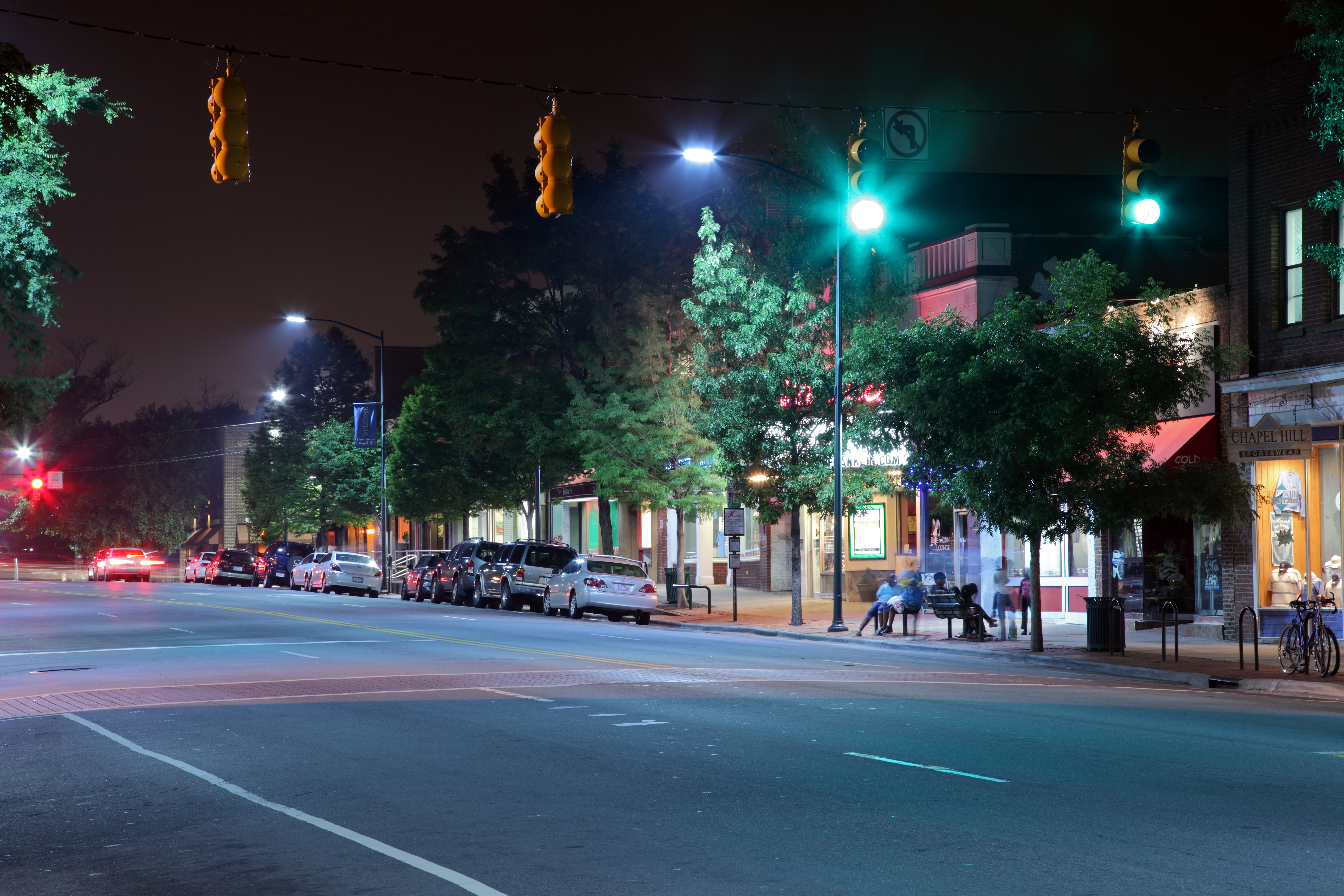 East Franklin Street pedestrian crosswalk at night in Chapel Hill, North Carolina.